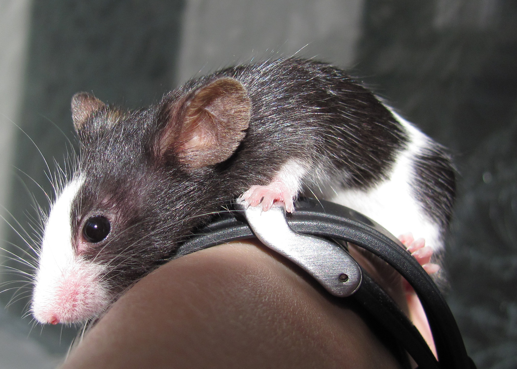 Adult mini sized pet mouse. This photograph was taken with a Canon PowerShot SX120 IS.